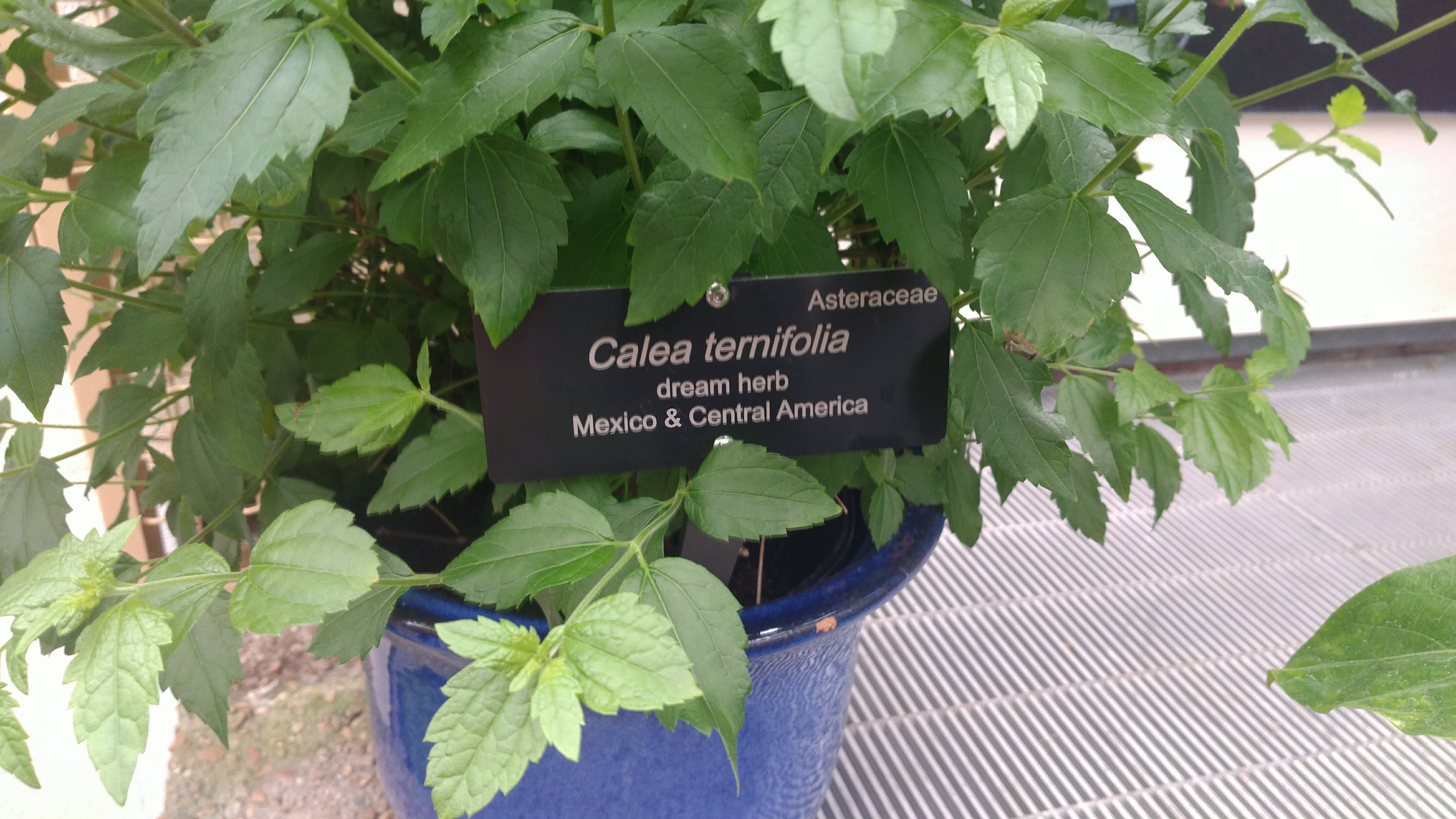 Calea ternifolia (syn. Calea zacatechichi) Dream Herb at the United States Botanic Garden